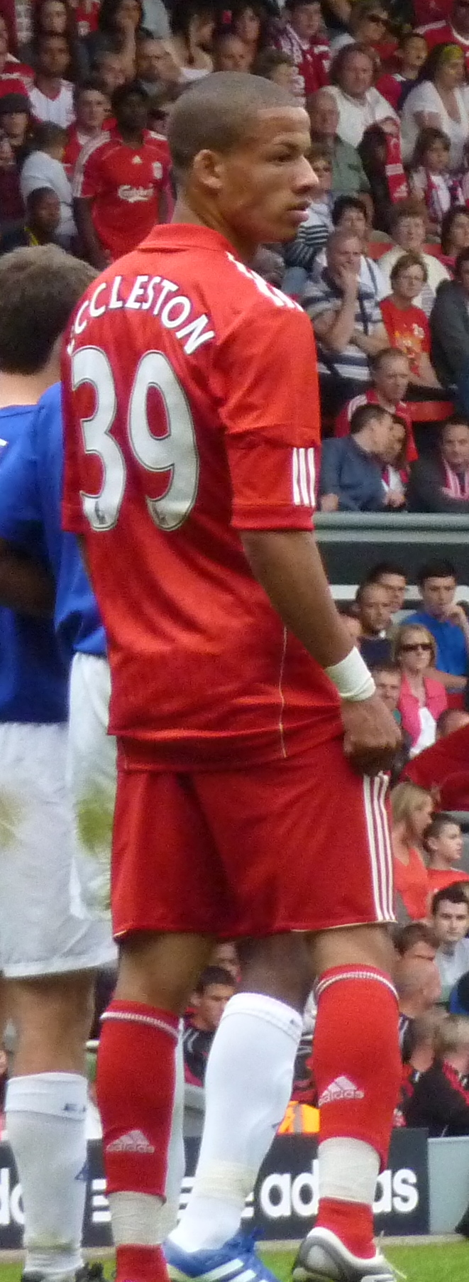 English football player Nathan Eccleston during Jamie Carragher Testimonial Match.